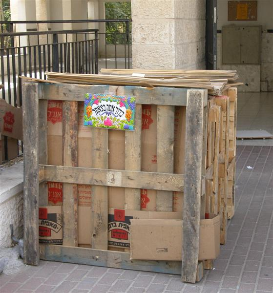 Childs Sukkah In Jerusalem - the sign בָּרוּךְ אַתָּה בְּצֵאתֶךָ "blessed shalt thou be when thou goest out" (Deuteronomy 28:6) is ornated with the Seven Species of the Land of Israel.